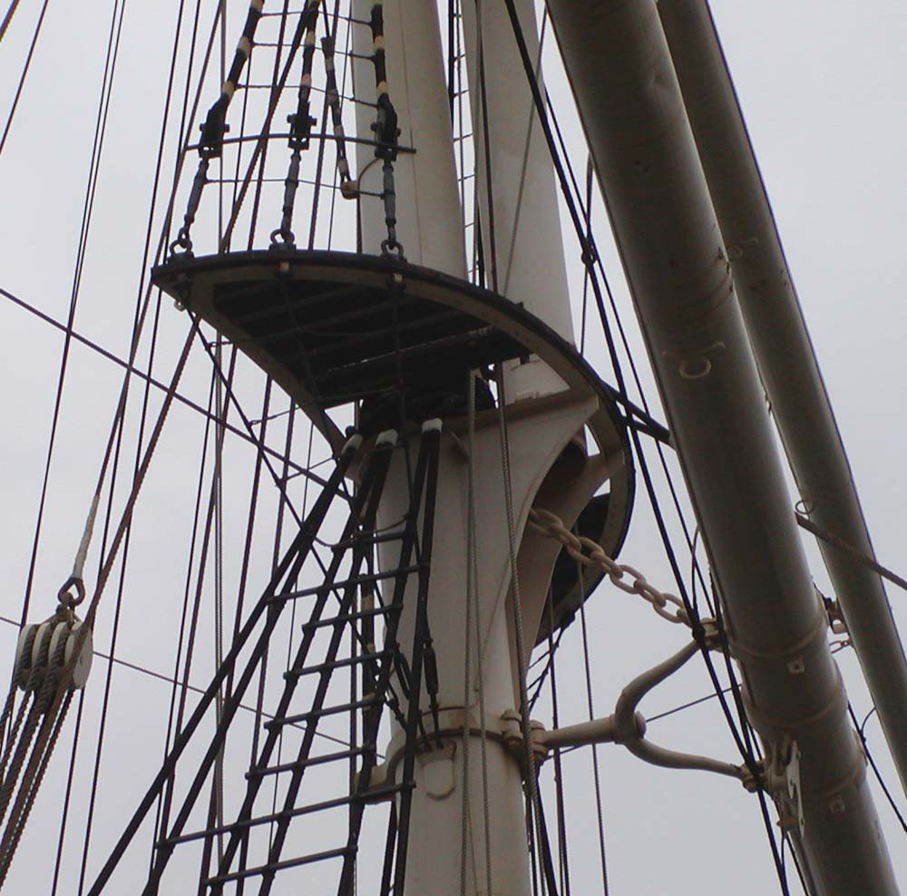 Falls of Clyde mast top